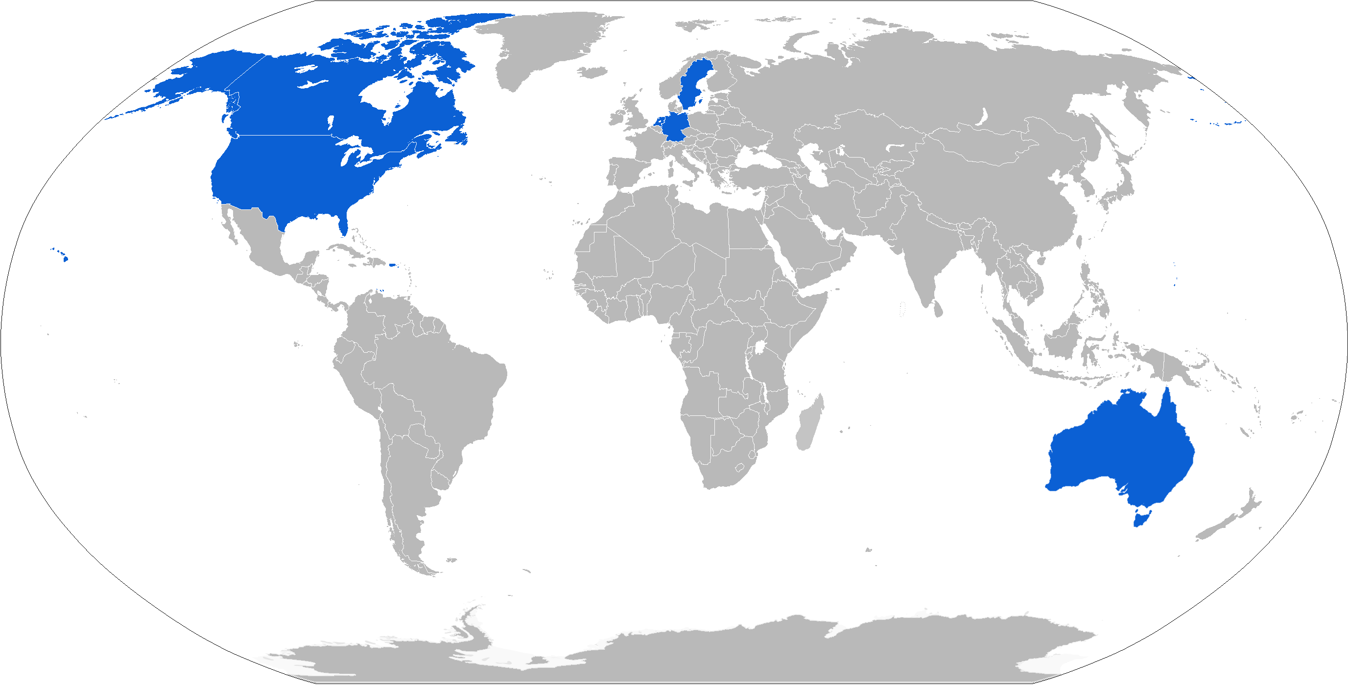 Map with M982 operators in blue